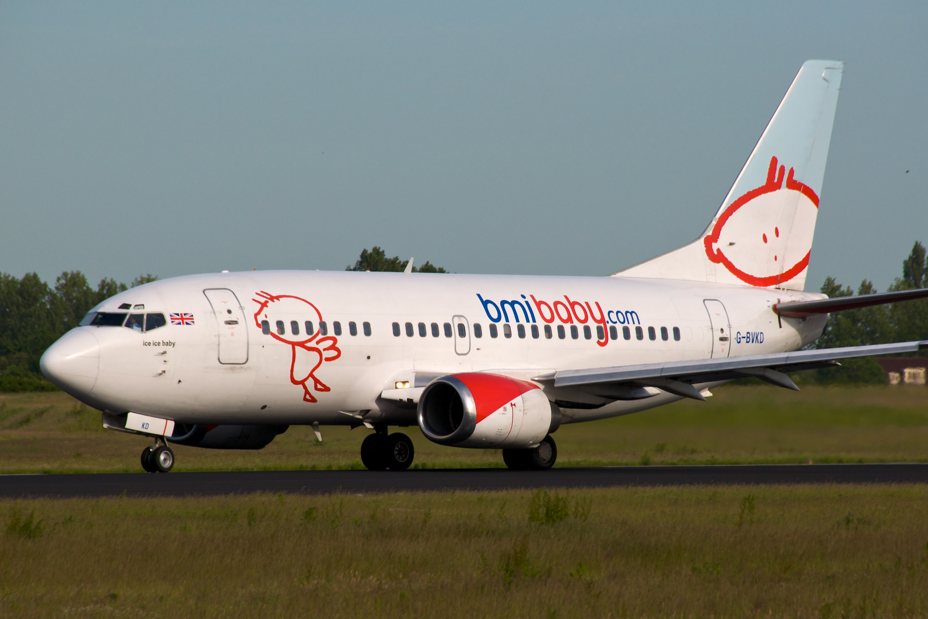 BMIBaby B737-500 G-BVKD.